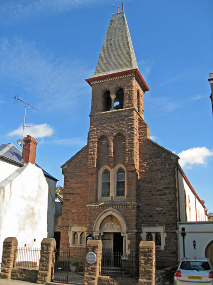 St Mary's Catholic Church, Monmouth